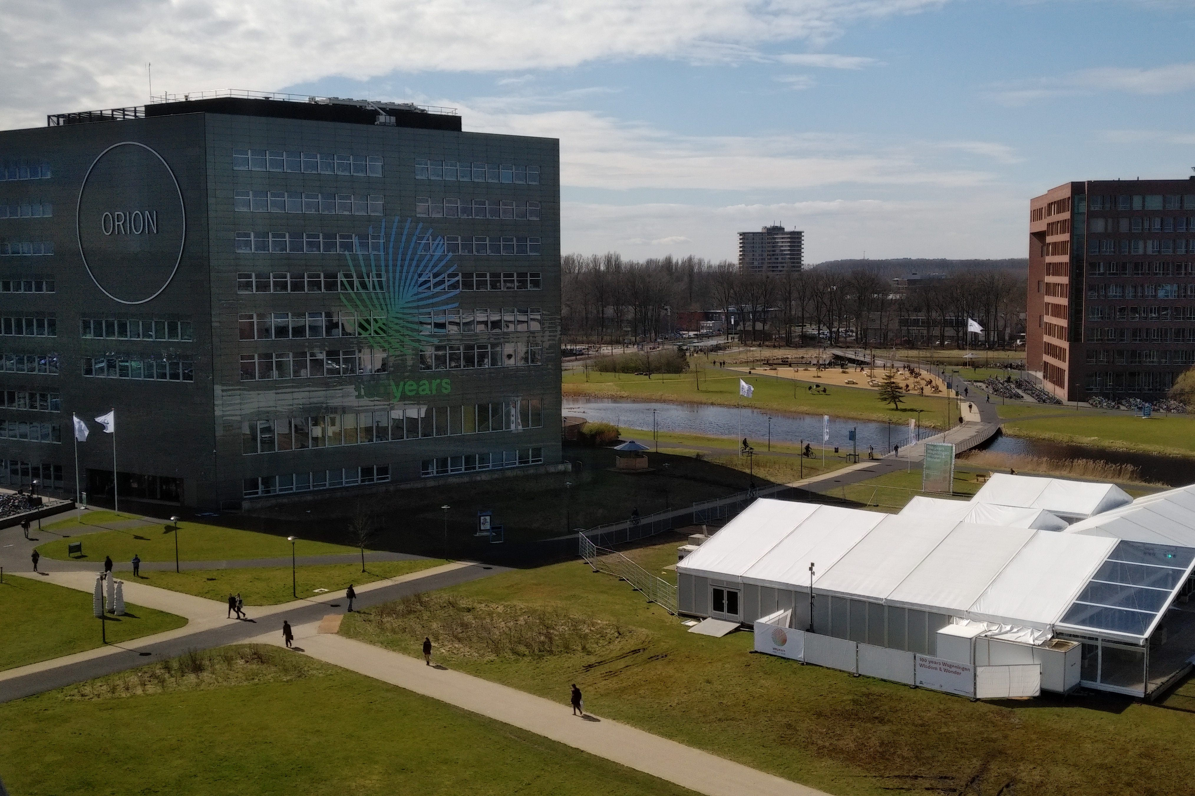 Orion, one of the study buildings on the campus